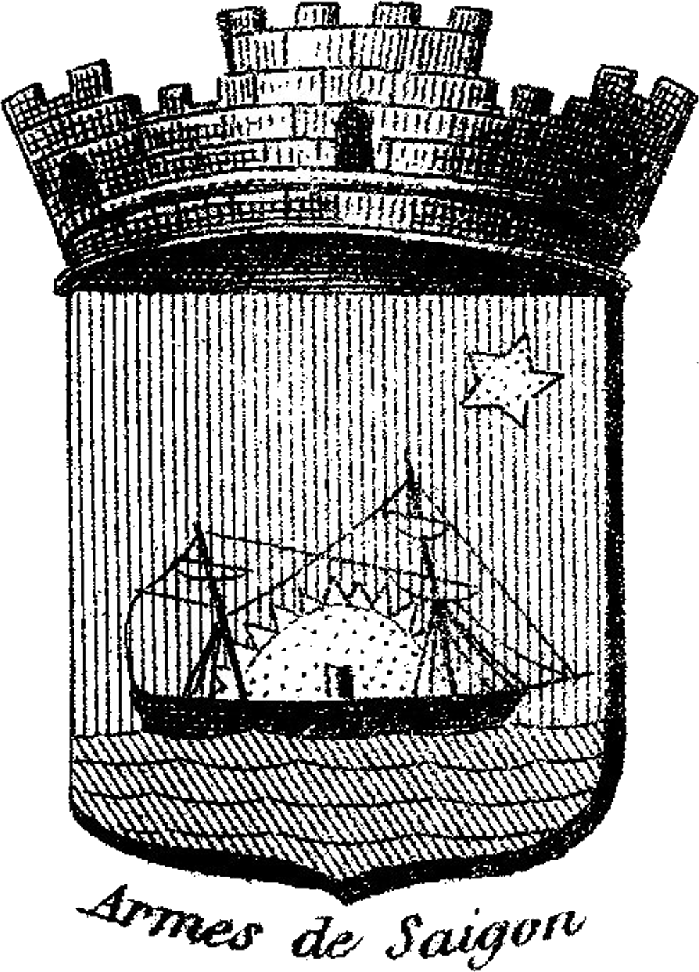 The former coat of arms of Saigon (modern day Ho Chi Minh City) used during French Cochin-China.